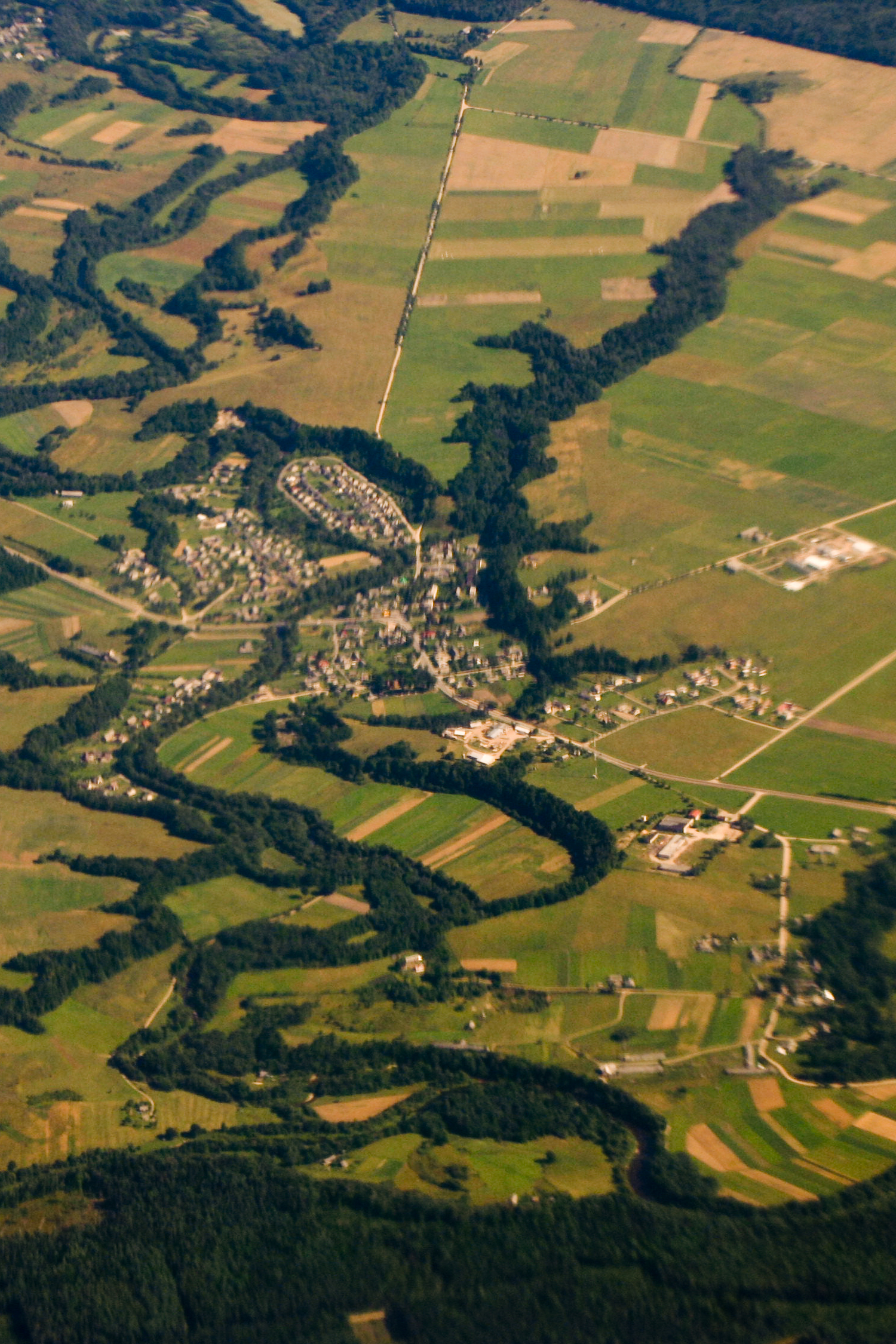 Bird's Eye view of Pagramantis, Lithuania